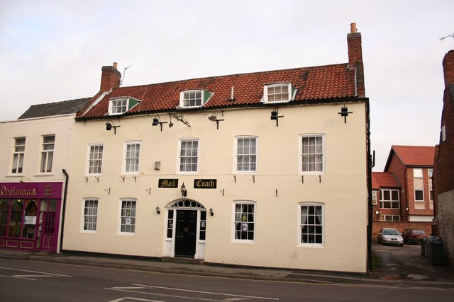 The Mail Coach. Refurbished Mail Coach 332796 on London Road